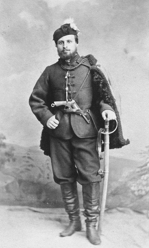 Ludwik Miecznikowski